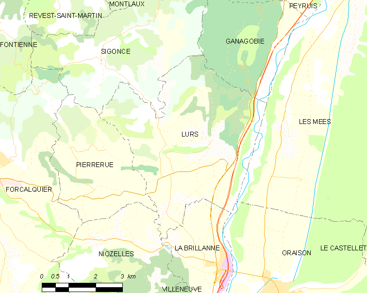 Map commune FR insee code 04106.png Légende